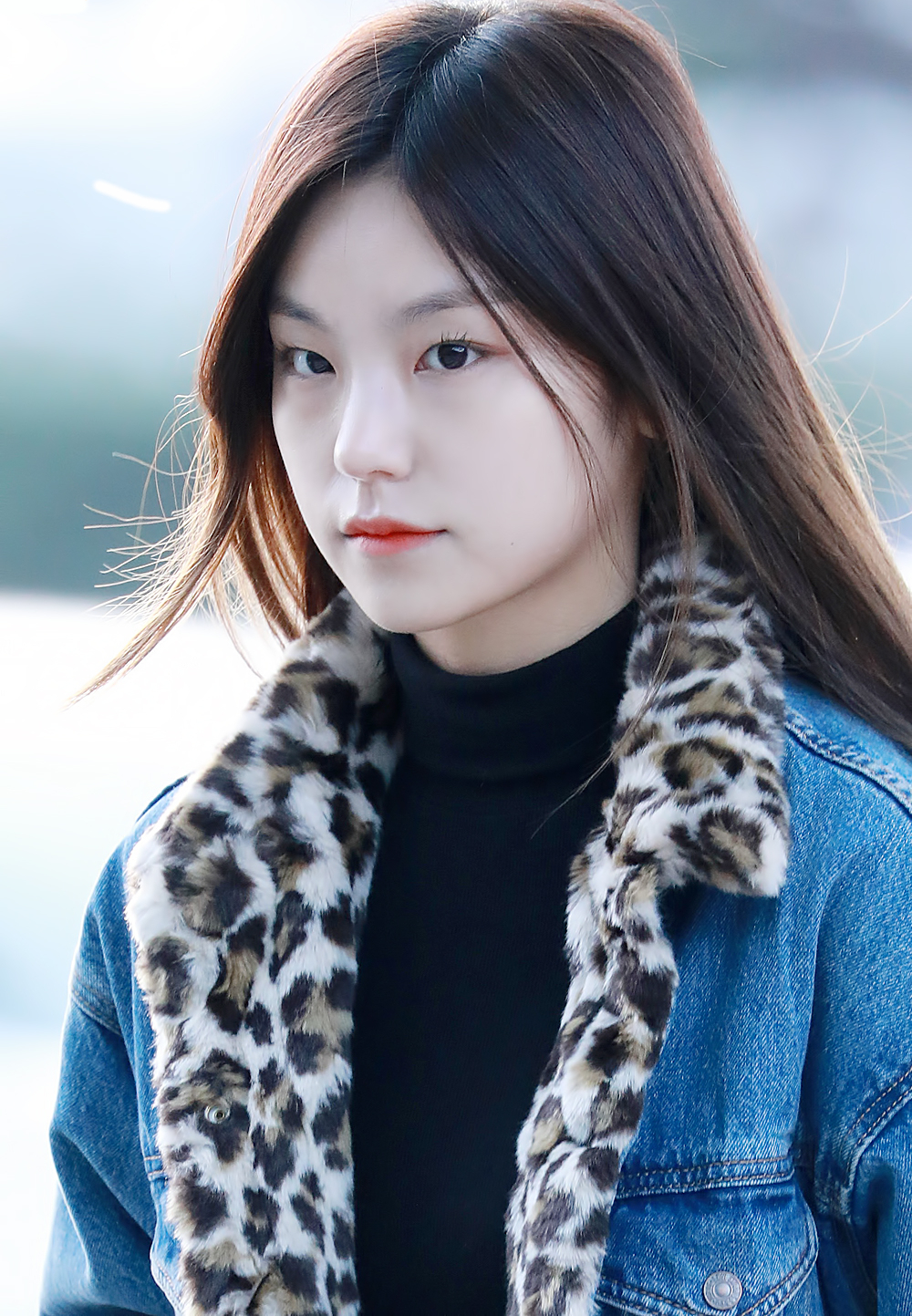 Hwang Ye-ji at Incheon Airport on November 25, 2019.